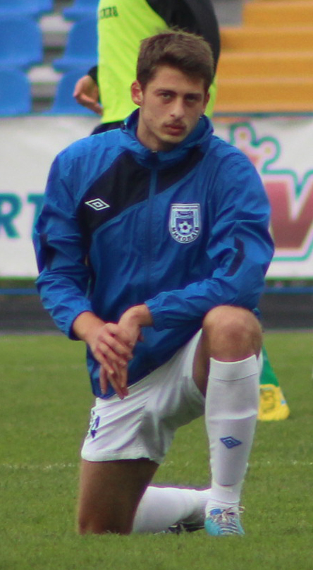 Giorgi Djgerenaja